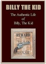 The source for this file, this source, is no longer active. That is the link from which this image was retrieved on 16 July 2011. This book cover was made in the United States and is in the public domain in the United States. The book it covered was The Authentic Life of Billy, the Kid, written by Pat Garrett (1850-1908).